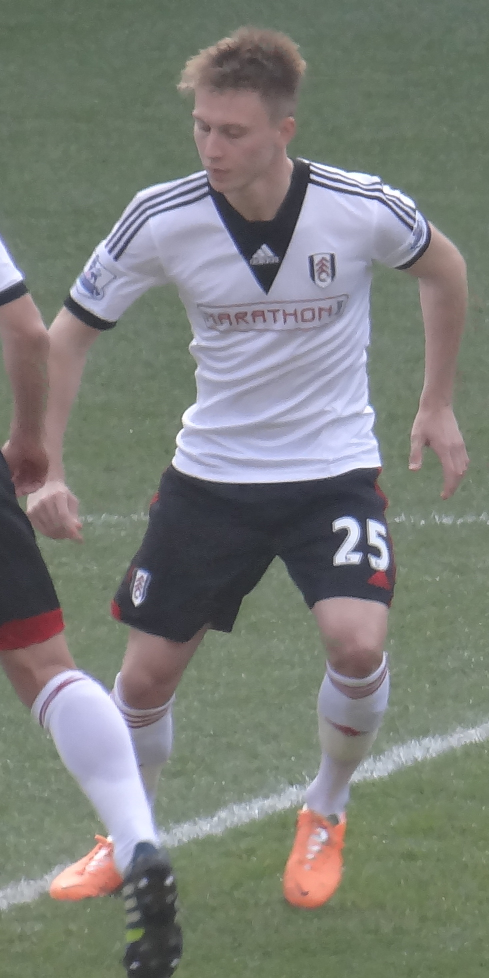 08/03/14 Cardiff City v Fulham, Premier League, Cardiff City Stadium, Cardiff, Wales